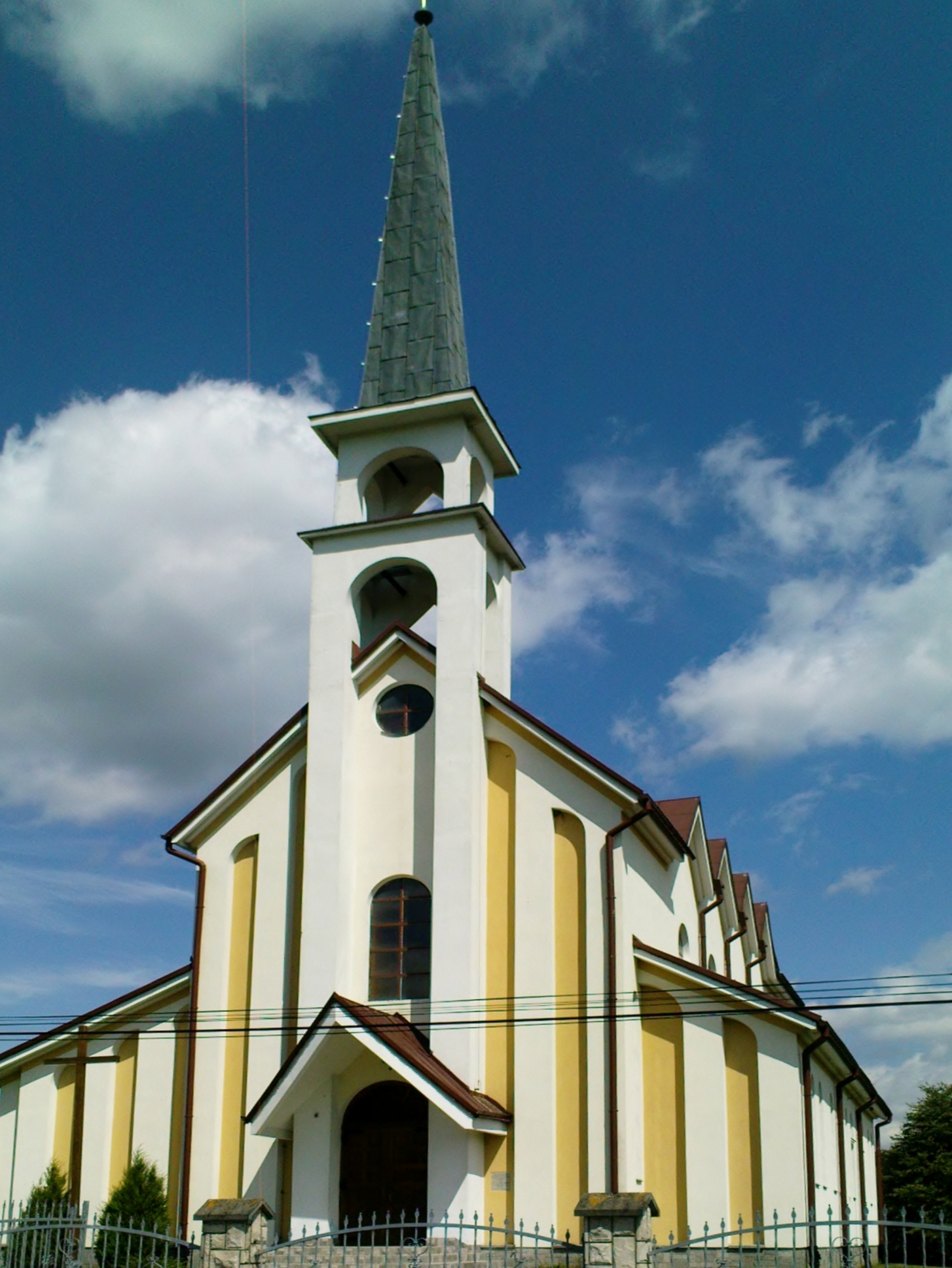 Kipszna - filial church (the access chapel) of the parish in Ciężkowice.JPG